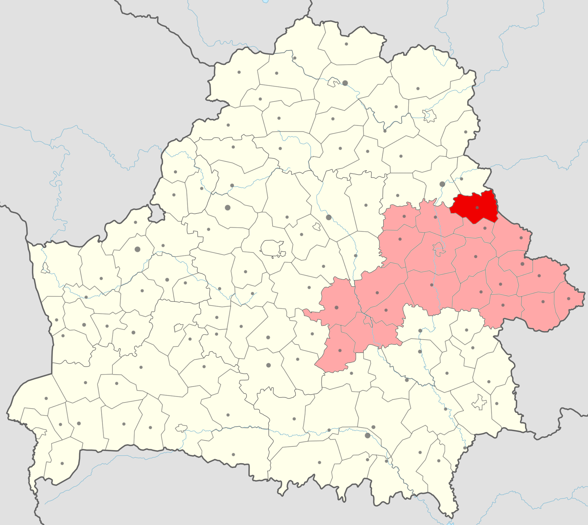 Location of Horacki rajon (red) in Mahilioŭskaja voblasć (light red) in Belarus.